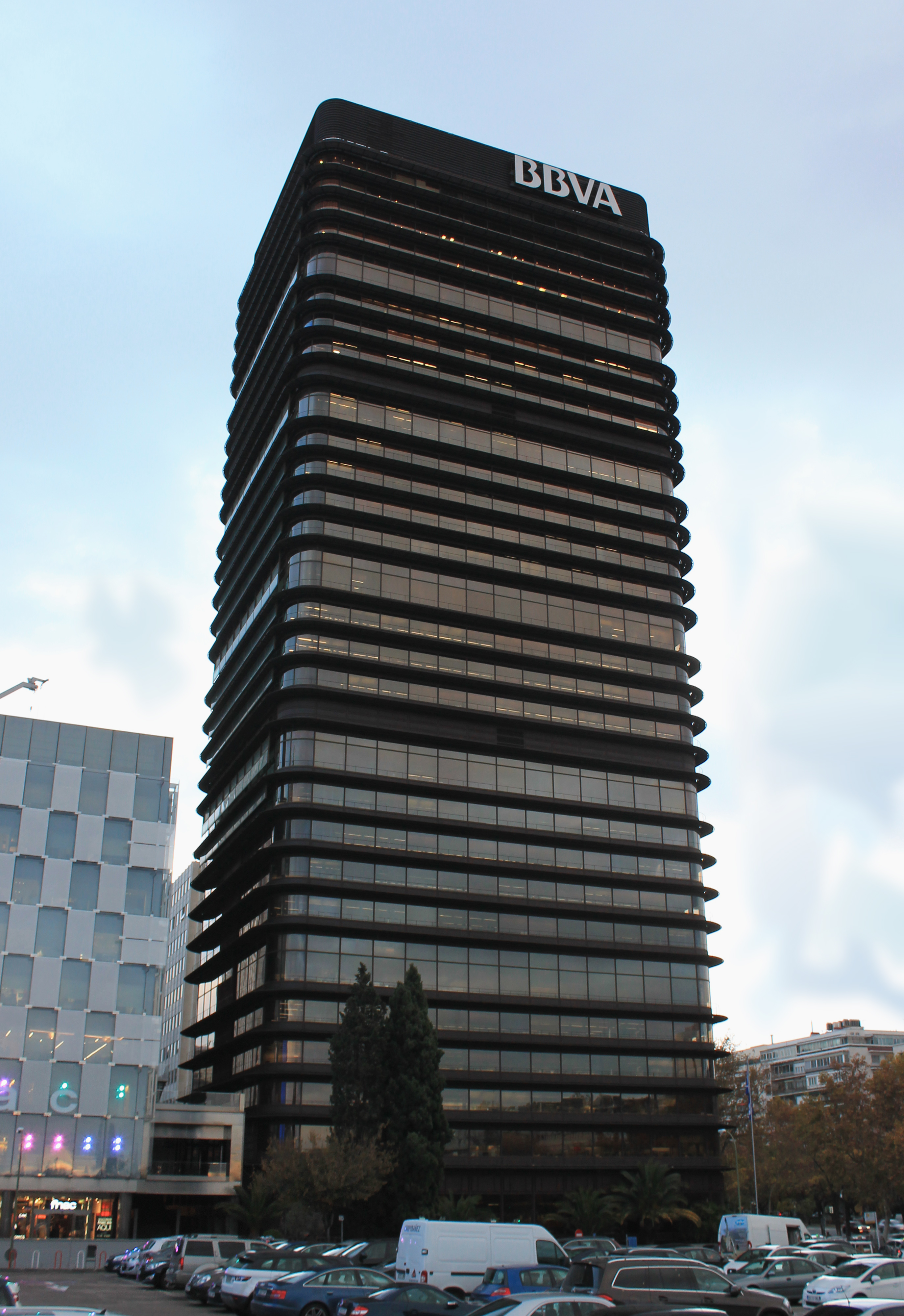 Façade of BBVA Tower in Madrid (Spain).